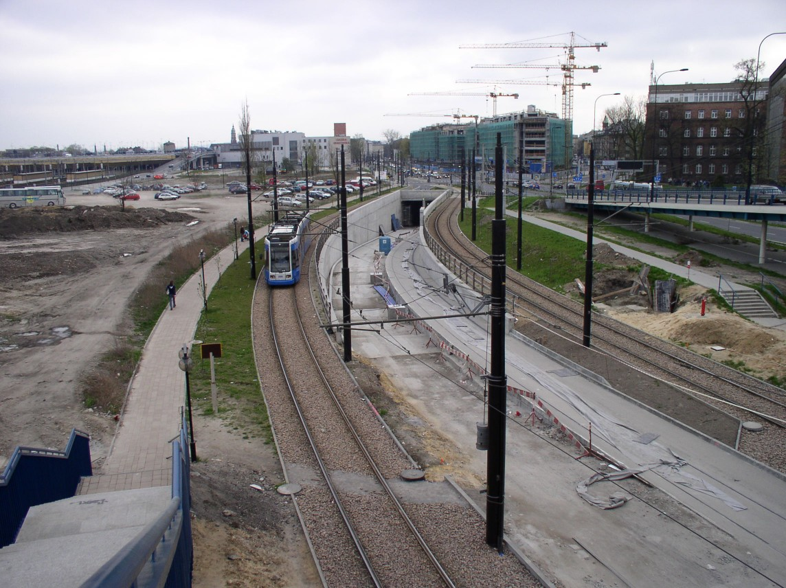 New tram line in Krakow, Pawia street, and the construction of the underground tram line.